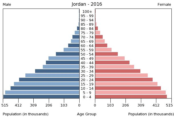 The population pyramid of Jordan illustrates the age and sex structure of population and may provide insights about political and social stability, as well as economic development. The population is distributed along the horizontal axis, with males shown on the left and females on the right. The male and female populations are broken down into 5-year age groups represented as horizontal bars along the vertical axis, with the youngest age groups at the bottom and the oldest at the top. The shape of the population pyramid gradually evolves over time based on fertility, mortality, and international migration trends.